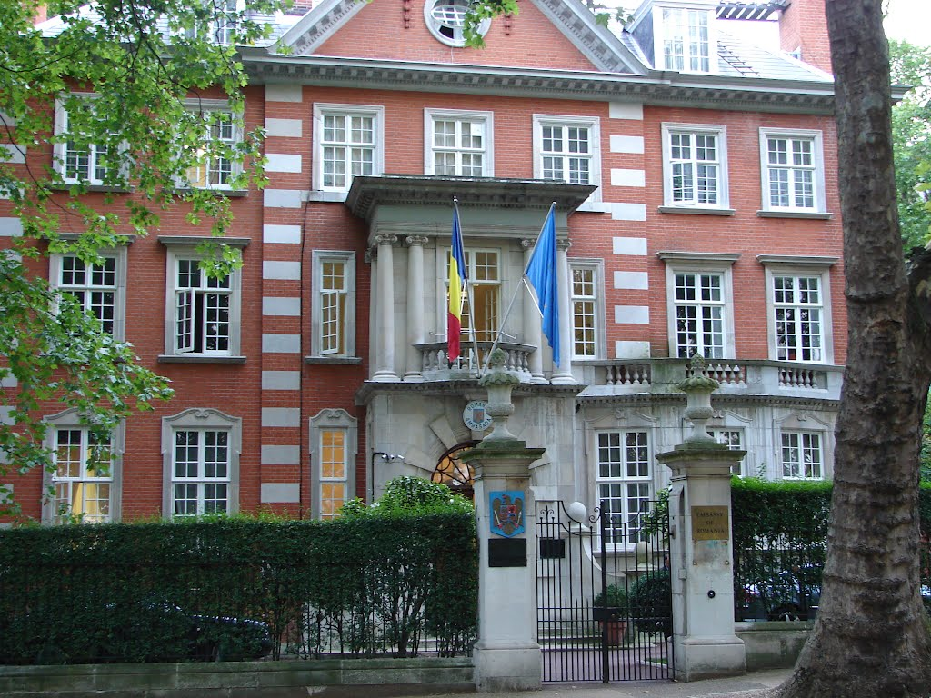 Embassy of Romania in London Other information Photo taken by Mr Joseph Hollick in 2007 (